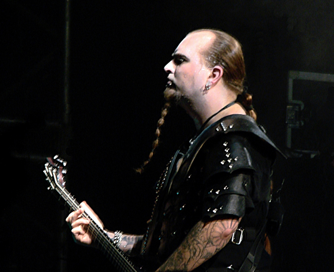 Dimmu Borgir,the Black Metal band from Norway, during their concert in Paris, the 4th of October 2007. Silenoz.